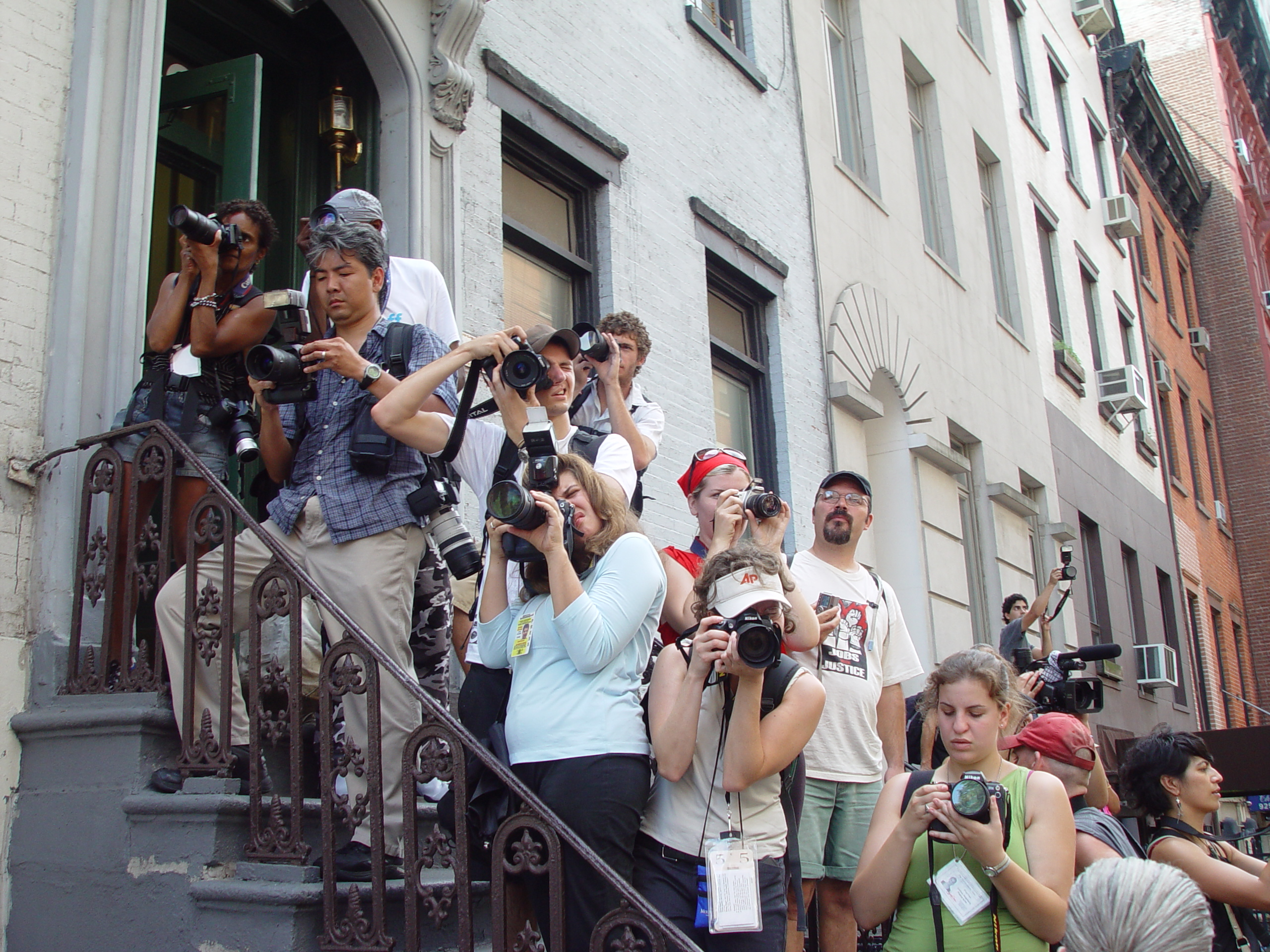 Protest of the Republican National Convention, New York City.